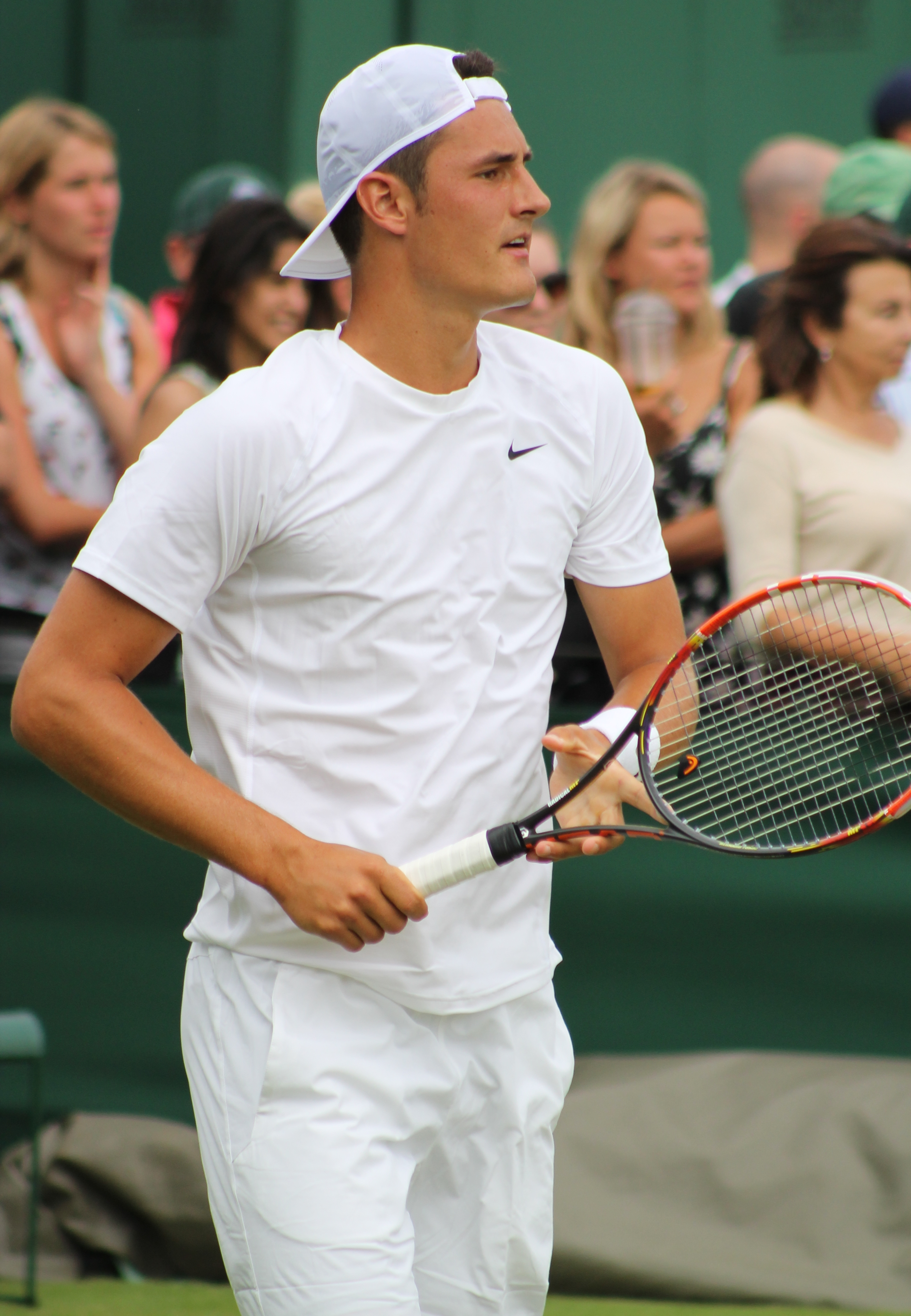 Tomic WM14 (14)